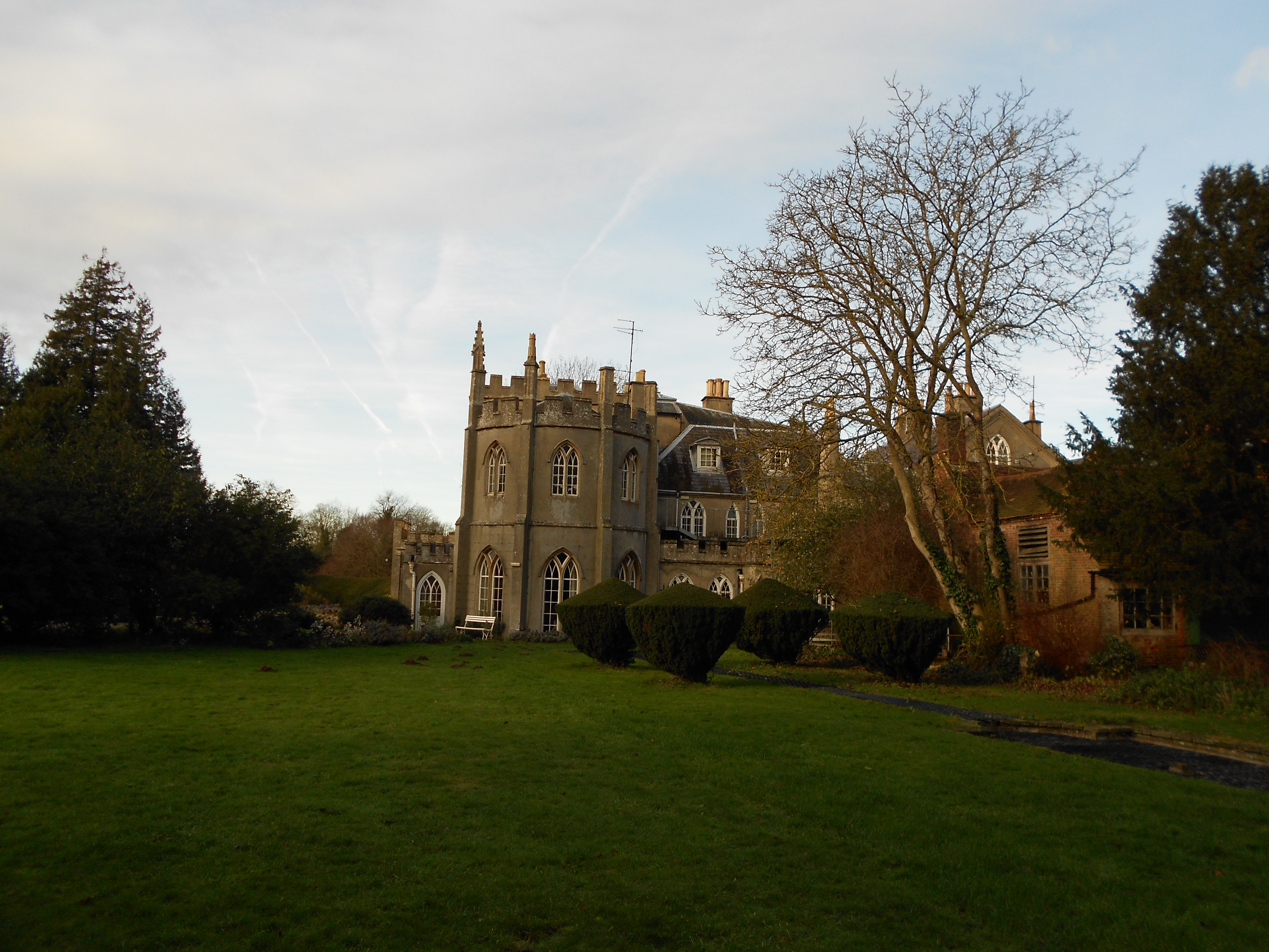 Left side of the Braziers Park House, Ipsden, Oxfordshire, England